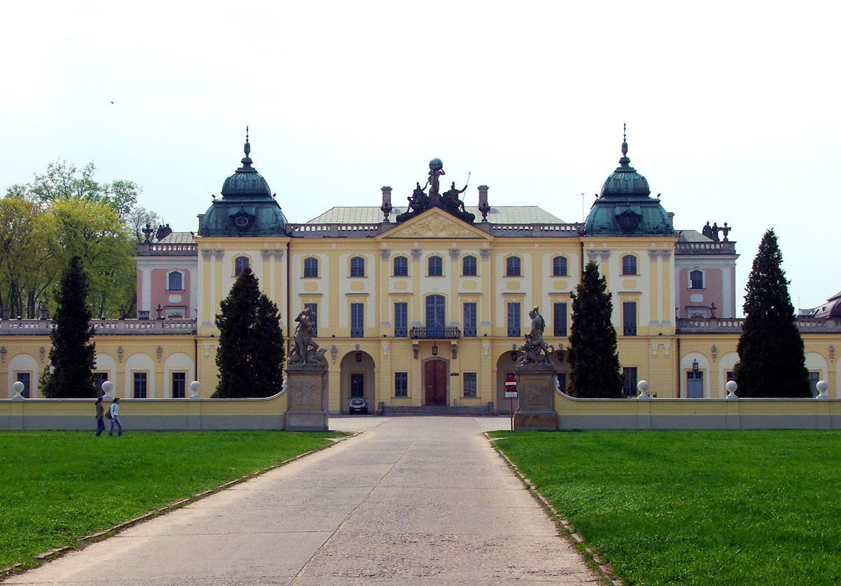 Cour d'honneur and corps de logis of the Branicki Palace in Białystok.